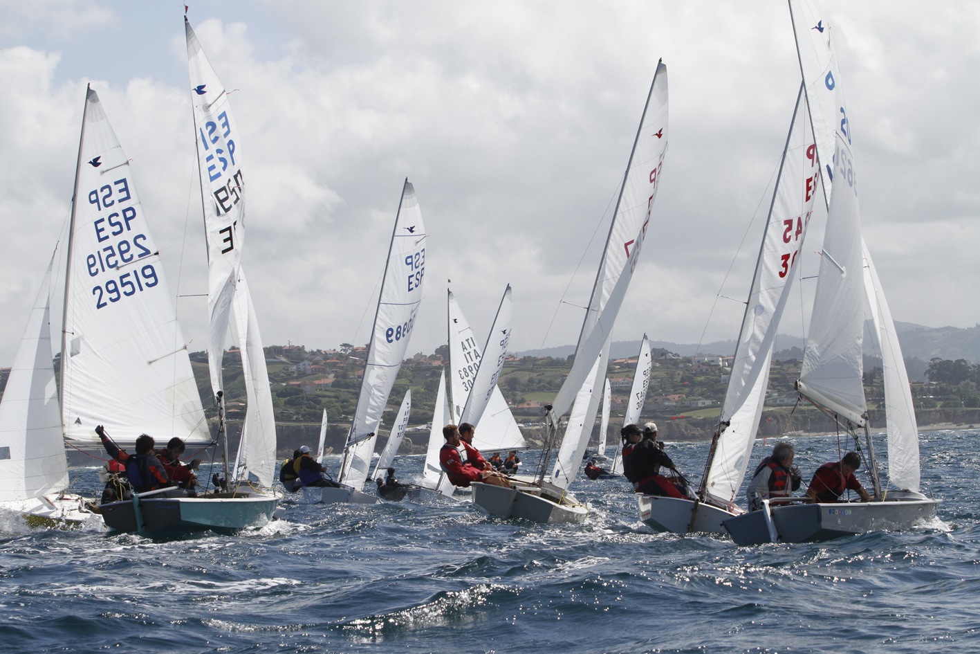 Snipe sailing at the Memorial Carlos del Castillo